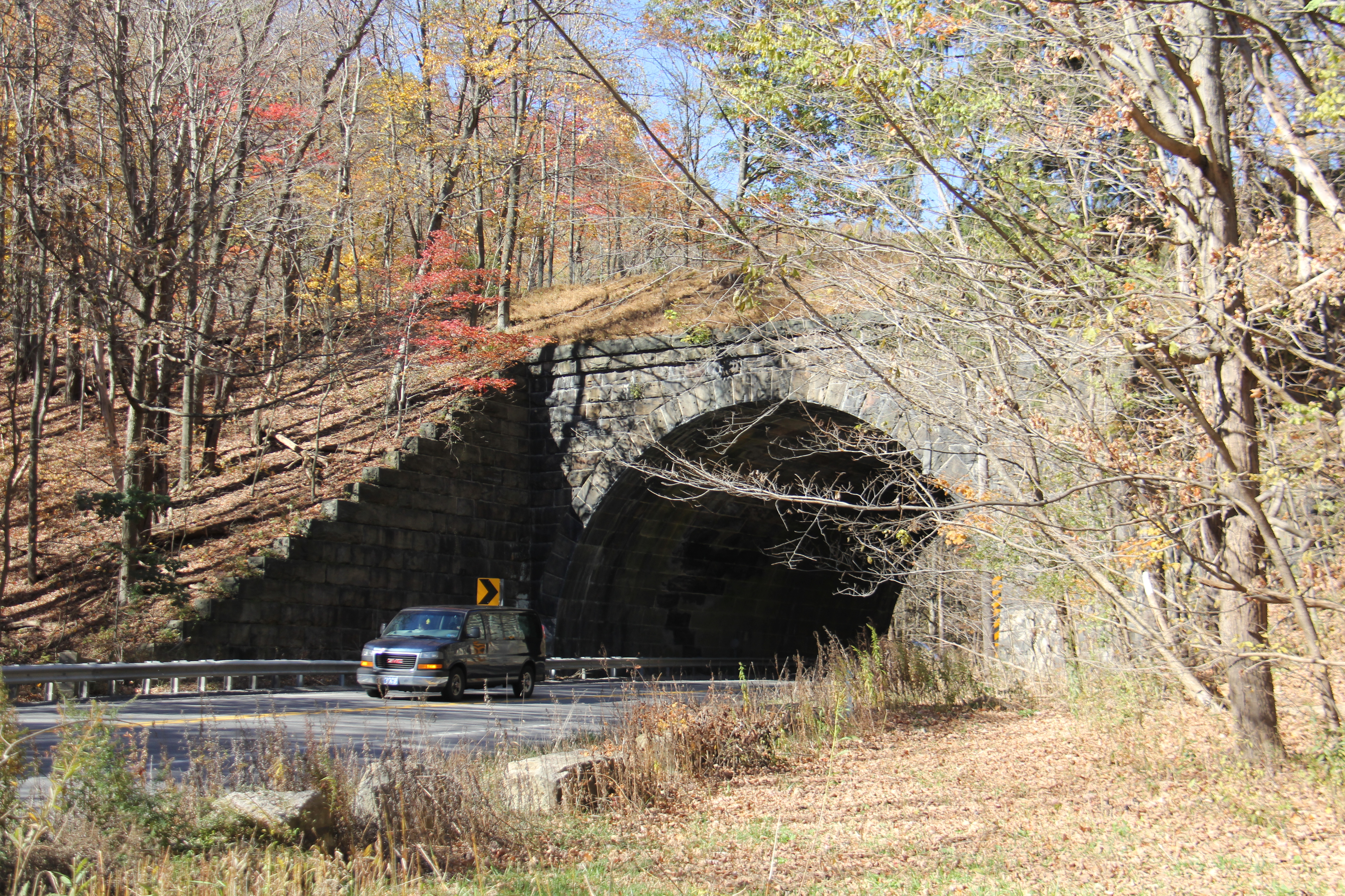 Old Route 22 and Allegheny Portage Railroad